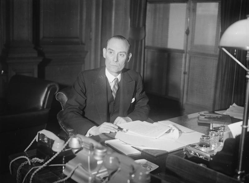 British Political Personalities 1936-1945 The Churchill Coalition Government 11 May 1940 - 23 May 1945: The Secretary of State for War from December 1940 to February 1942, Captain David Margesson at his desk at the War Office.